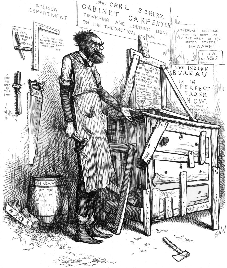 U.S. Secretary of the Interior Carl Schurz, as a carpenter, indicates the Indian "Bureau" he has constructed. It seems a rather rickety construction job. Around are posted various notices about the work and tools which punningly reference activities in the Bureau.